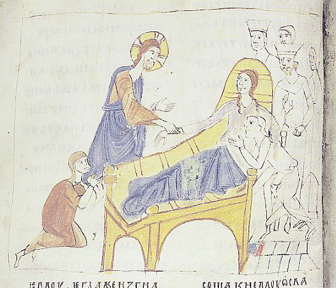 Воскресіння дочки Яіра. Мініатюра Лавришівського євангелія.